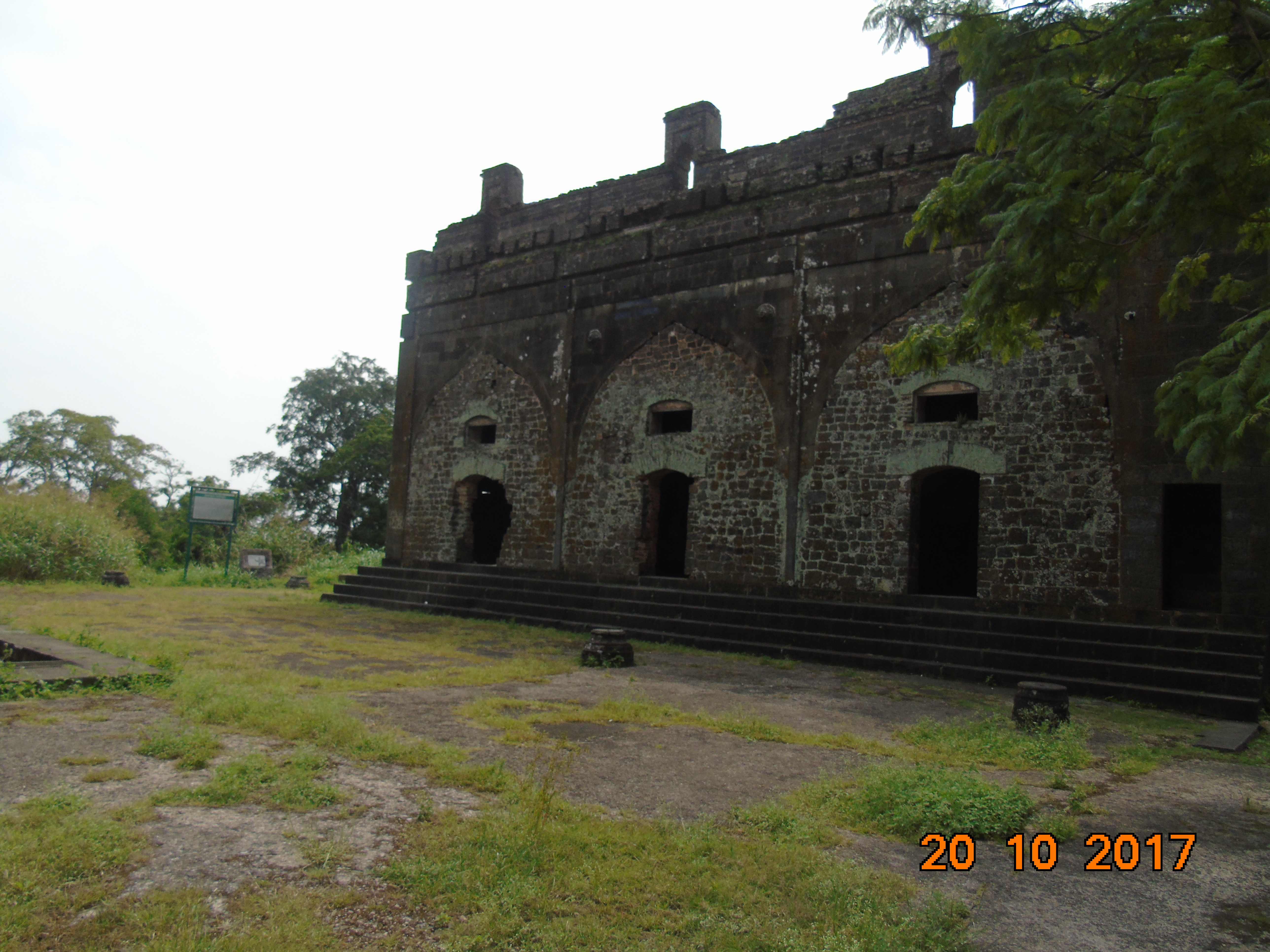 Double storeyed building built specially for Queens